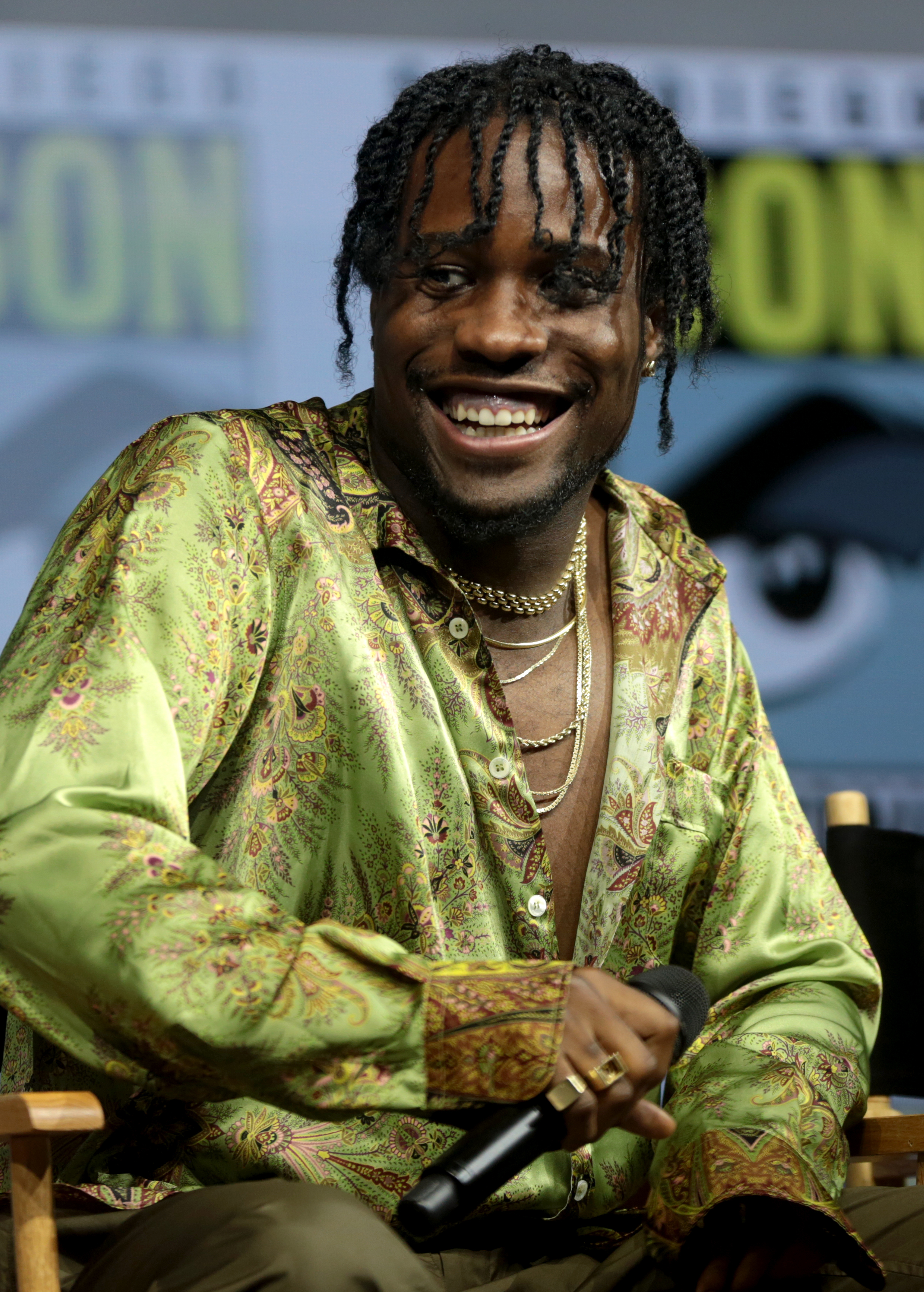 Shameik Moore speaking at the 2018 San Diego Comic-Con International in San Diego, California.